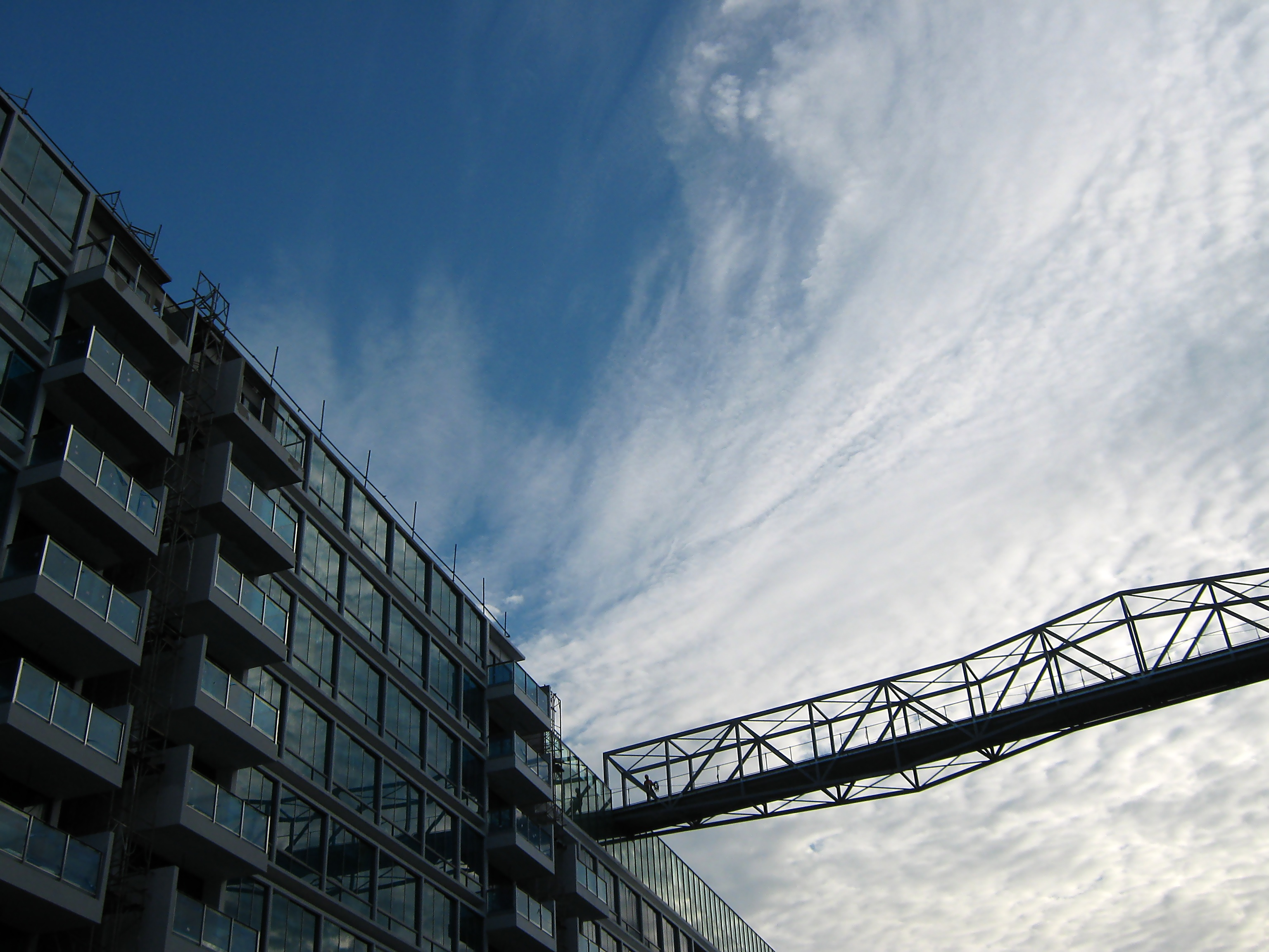 In Apr/May 2009, I took 15 days to walk all the way from Tokyo to Kyoto, roughly following the 546km long, ancient highway, the Nakasendo, alone. This picture was taken on one of the many training walks I did for the long solo walk in Singapore. Read about my preparations and my time in Japan at .